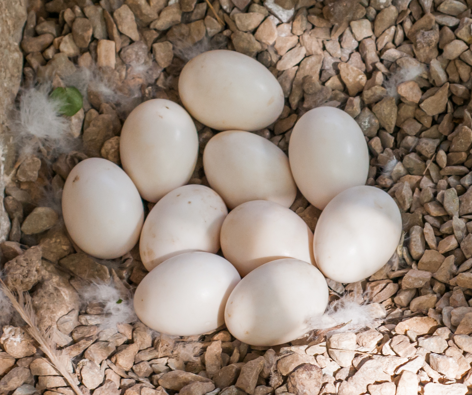 Duck eggs, bred in captivity at a local farm on the Margarita island